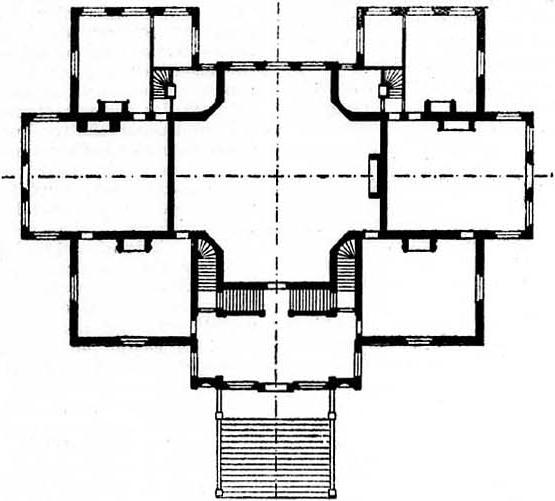 Huis ten Bosch, The Hague, plan.